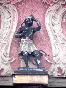 Gotha Mohr